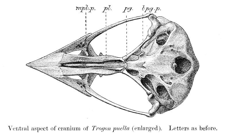 Skull of Trogon collaris puella pg. pterygoid mpl.p maxillo-palatine process pl. palatine bpg.p. basipterygoid process